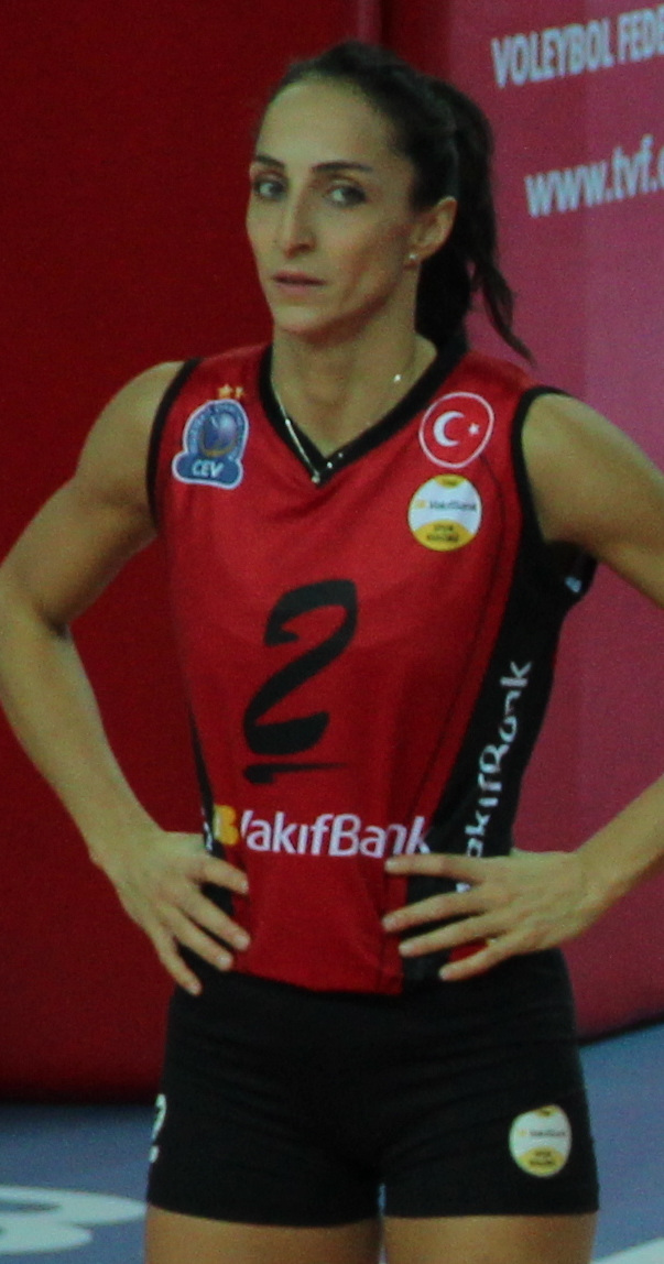 1. Gizem Örge 2. Gözde Kırdar Sonsırma 3. Cansu Özbay 5. Zhu Ting 11. Naz Aydemir